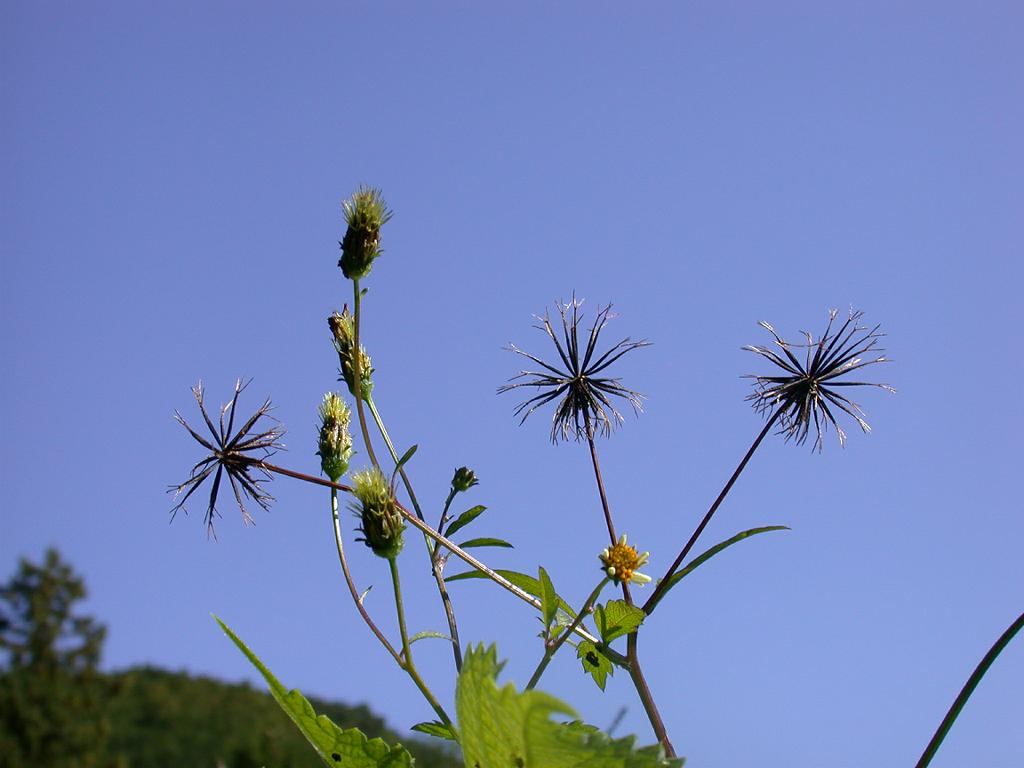 Name Bidens pilosa var. minor (Compositae) Date;2005,11,05.Roadside,Tanabe city, Wakayama prefecture, Japan Author;Keisotyo